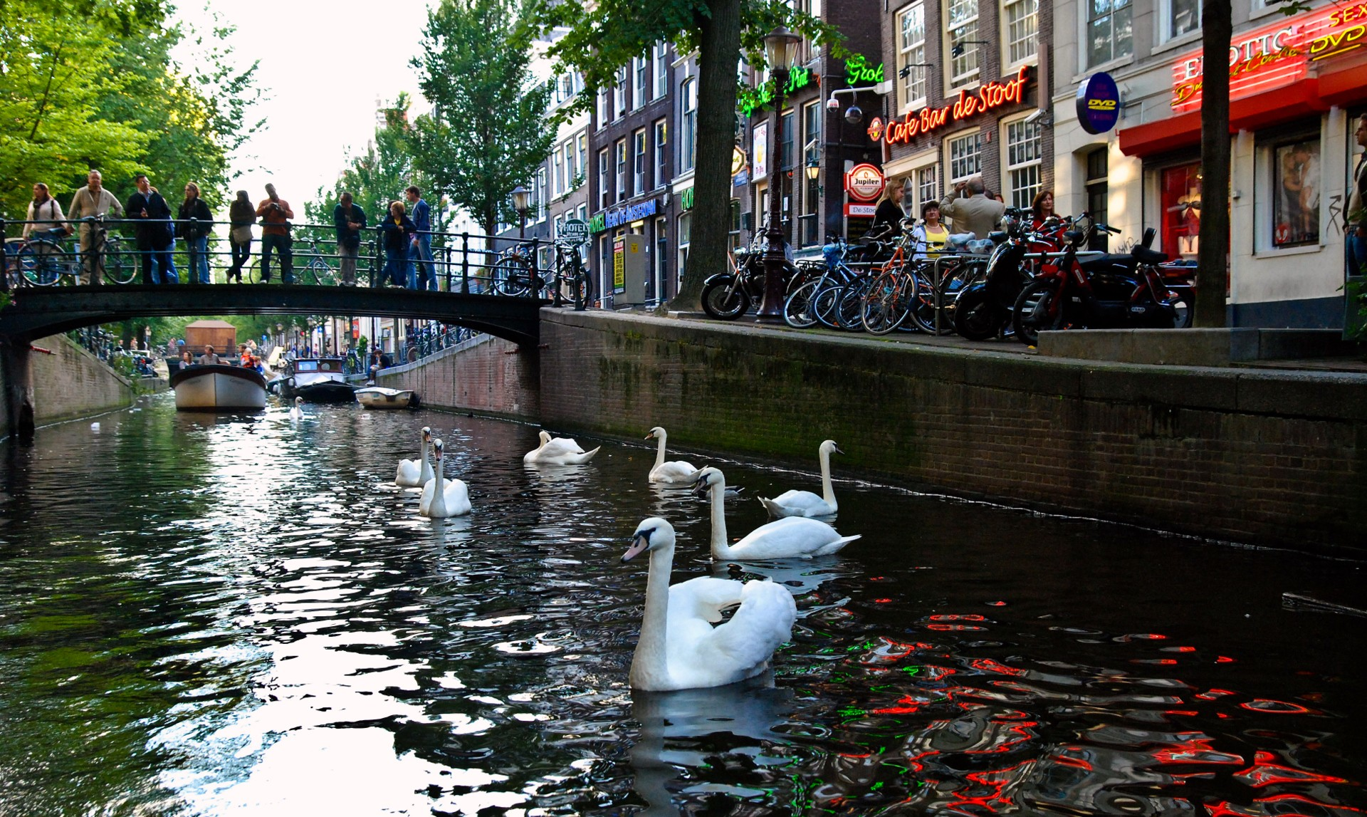 A herd of swans swim in the Oudezijds Achterburgwal, right in the middle of the Red Light District of Amsterdam.